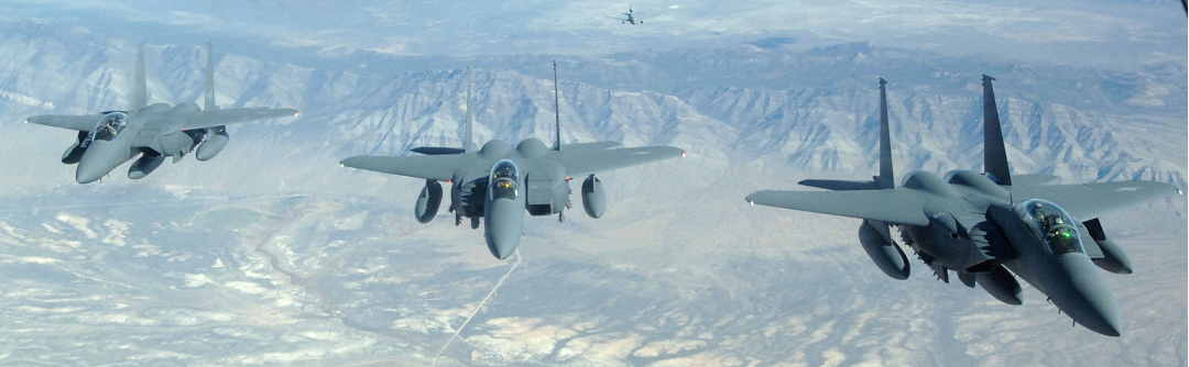 F-15Cs cruise on their way to Korea. The aircraft will be delivered formally to South Korea in early November [2006} as part of a program managed by the 912th Aeronautical Systems Group here. An advanced derivative of the U.S. Air Force F-15E, the F-15K is a long-range, multi-role fighter that can perform air-to-ground, air-to-air and air-to-sea missions during day or night in virtually any weather. It can carry 23,000 pounds of payload, reach Mach 2.5 and incorporates the latest military technologies, such as advanced computer, display, protection, radar and targeting systems. The three F-15Ks are part of a 40-aircraft delivery to the Republic of Korea Air Force taking place now through 2008. Jennifer Wallen)